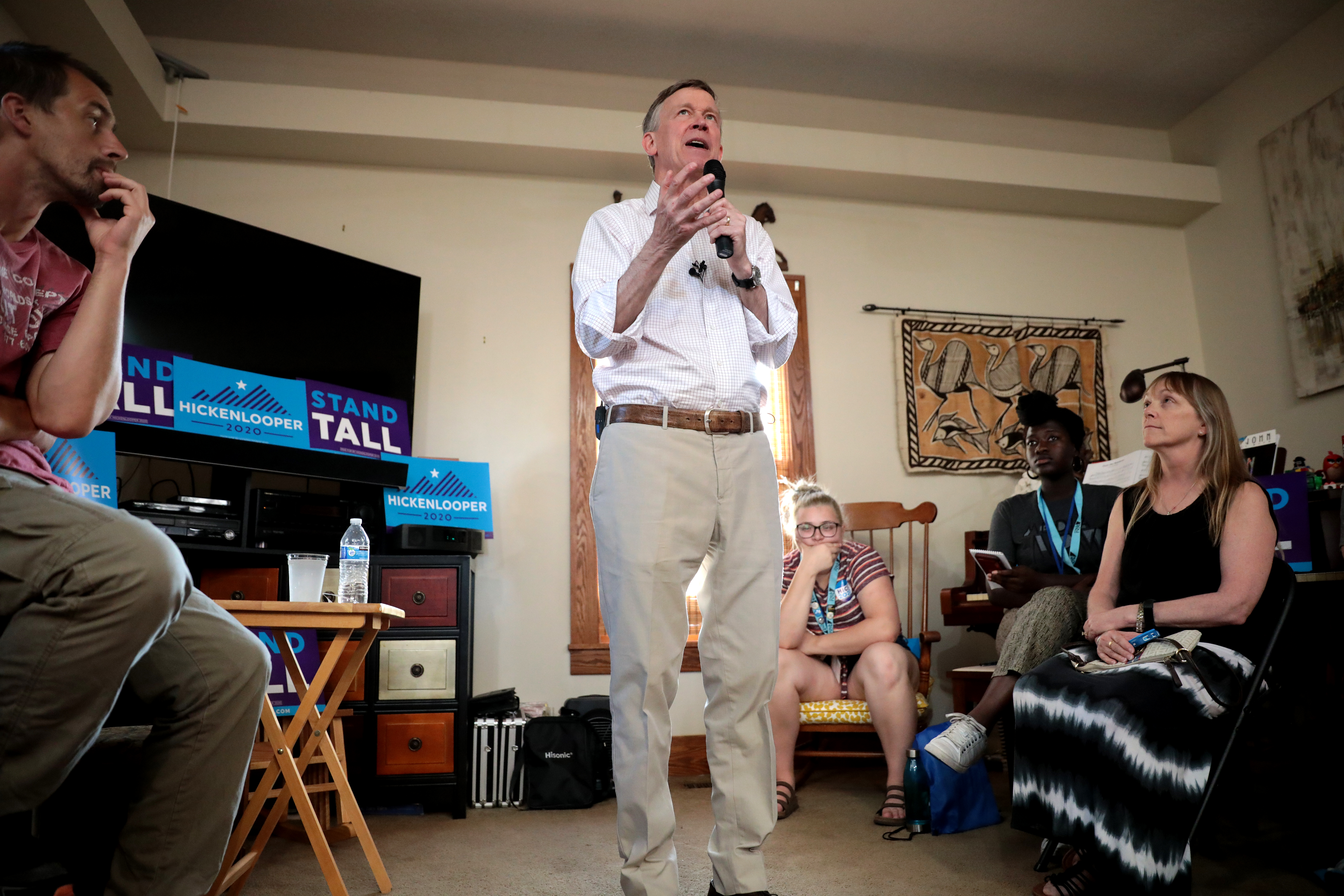 Former Governor John Hickenlooper speaking with supporters at a house party hosted by the Northwest Des Moines Democrats in Des Moines, Iowa.